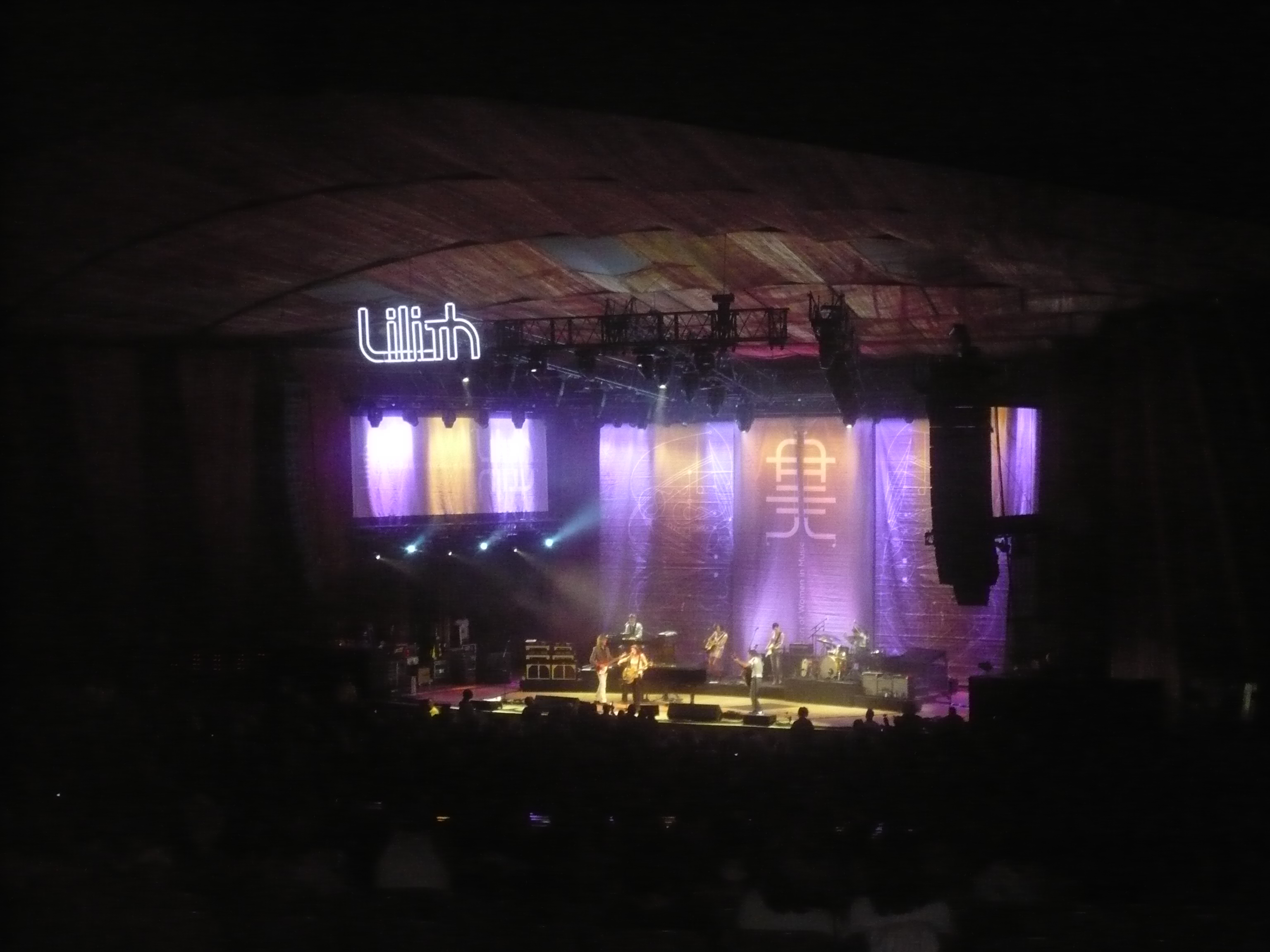 Lilith Fair in Cleveland, OH